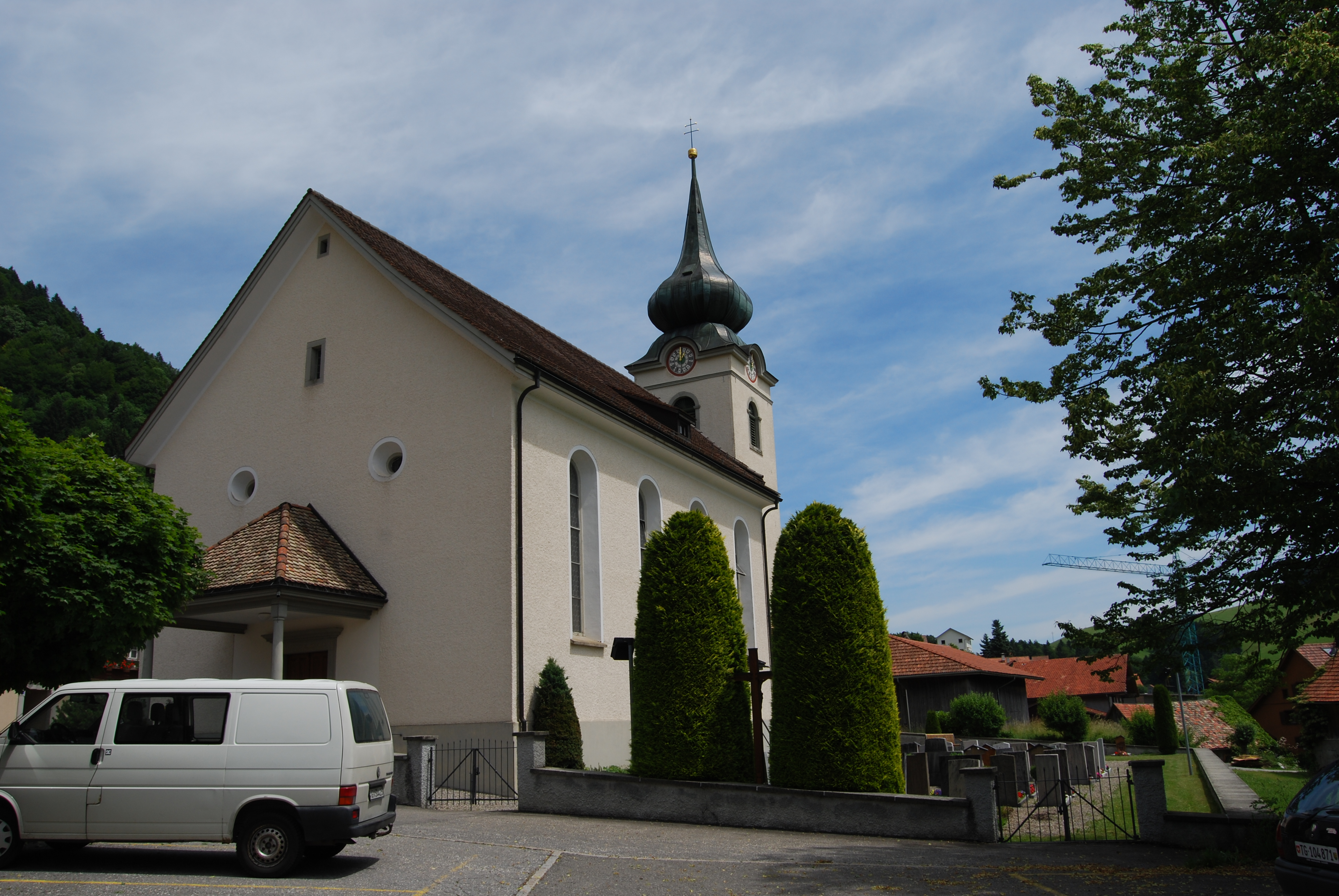 Pastoral church Saint Antony of Padua at Walde, municipality of St. Gallenkappel, canton of St. Gallen, Switzerland